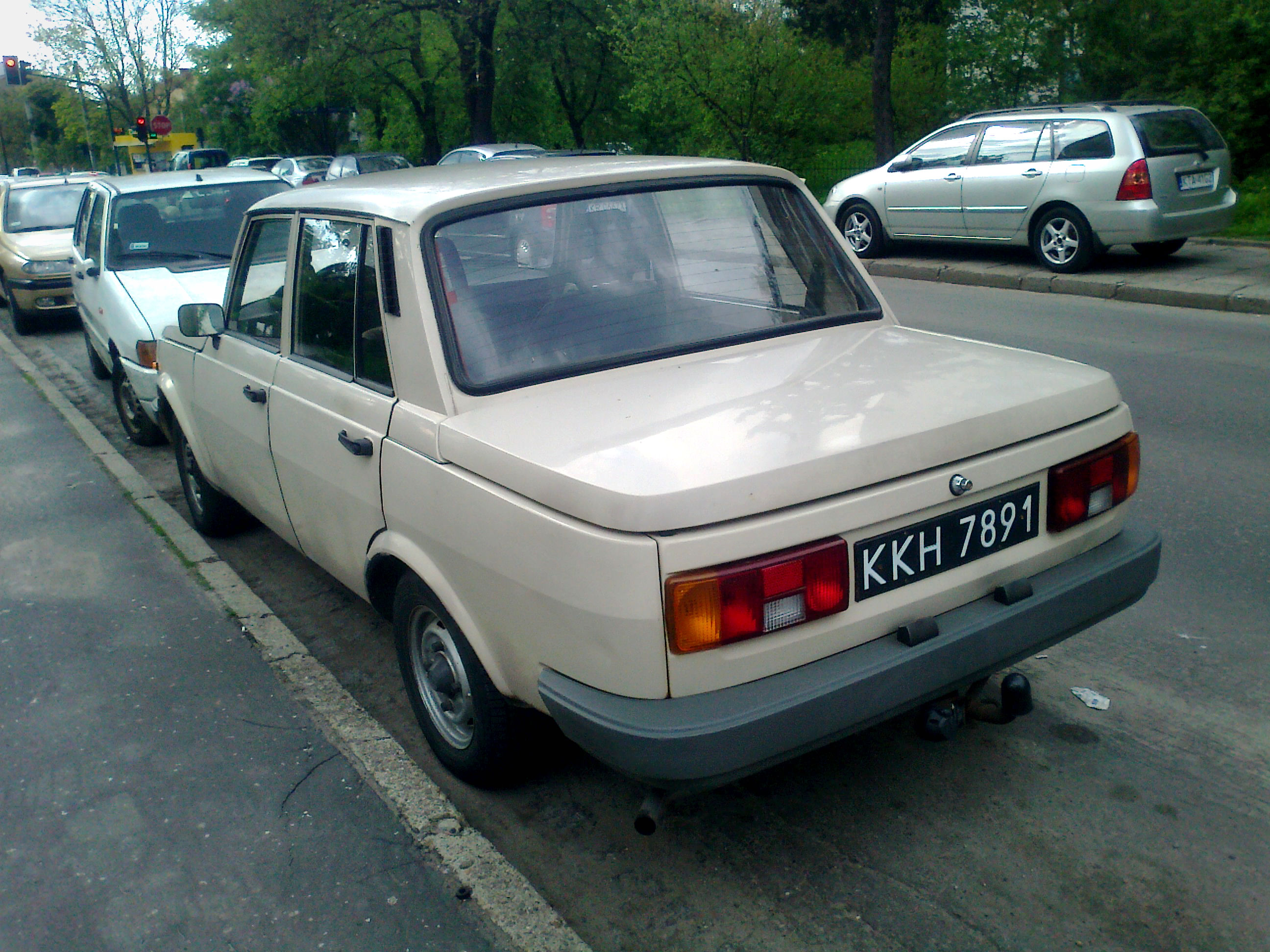 Beige Wartburg 1.3 seen in Kraków, Poland.